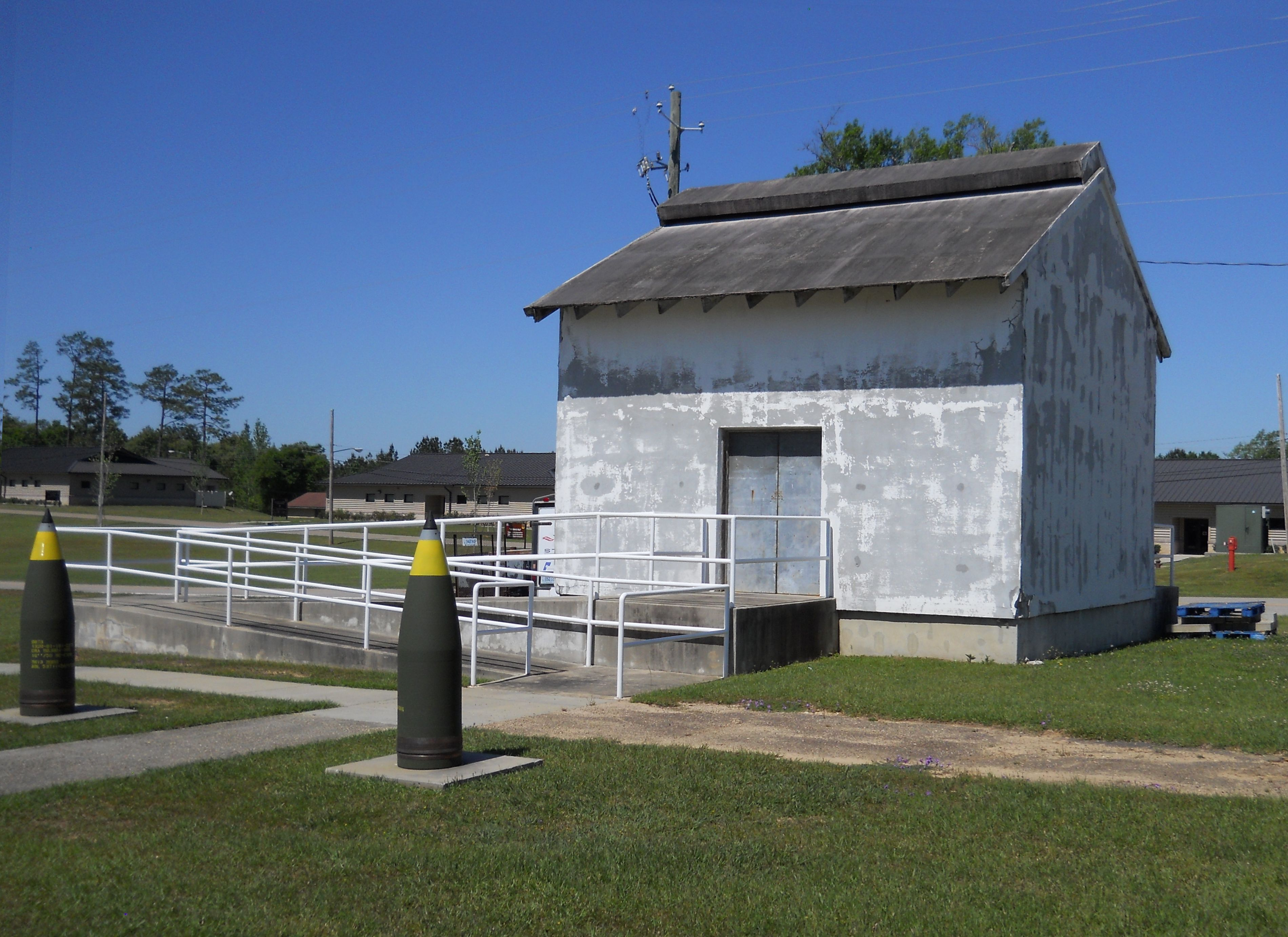 Building 6981, Camp Shelby is located on the grounds of the Mississippi Armed Forces Museum at Camp Shelby in Forrest County, Mississippi